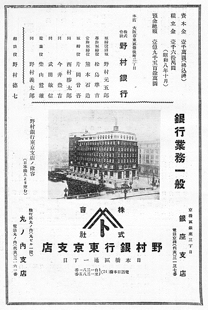 Nomura Bank advertisement in 1930s